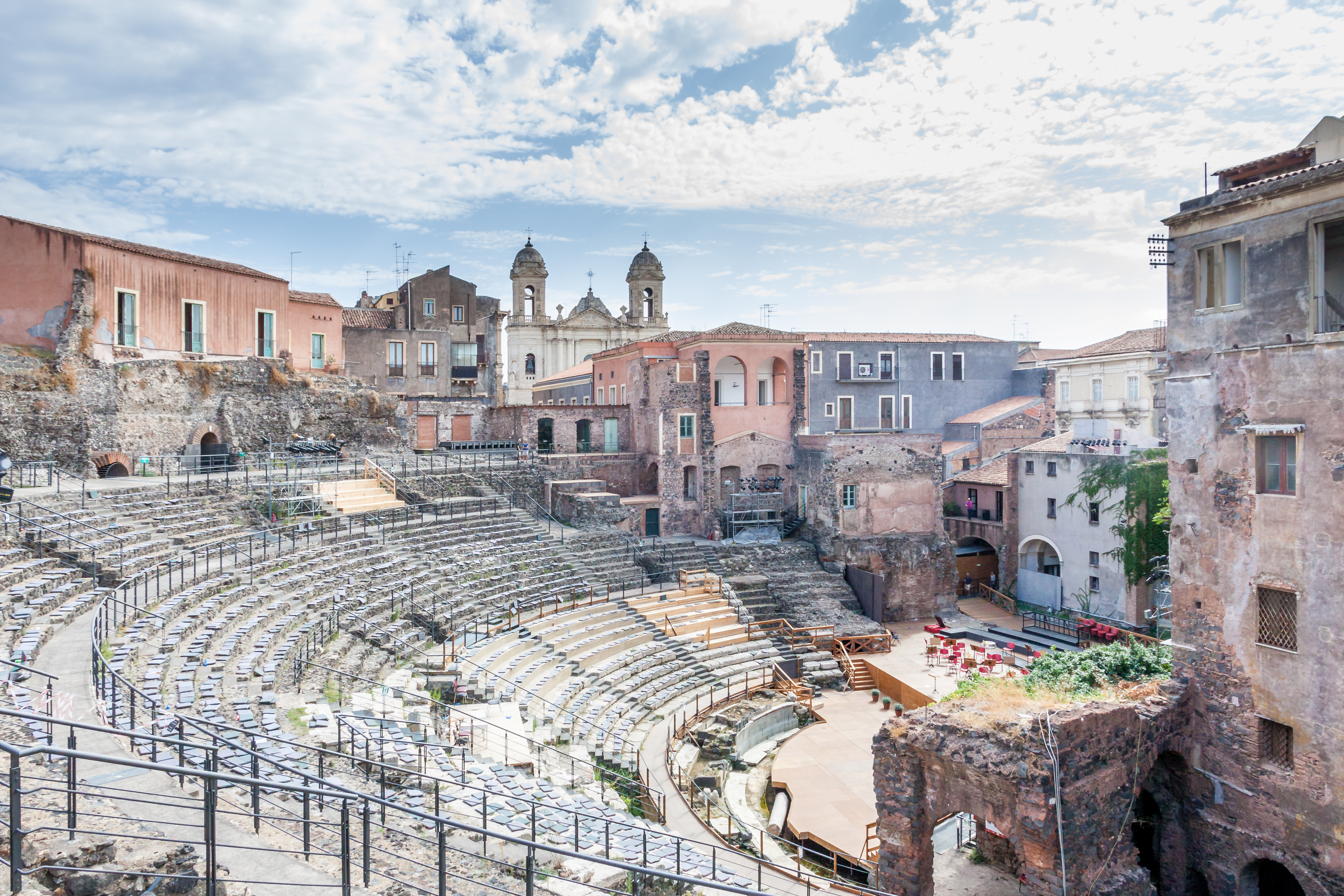 Ruins of Greek-Roman theater, Catania